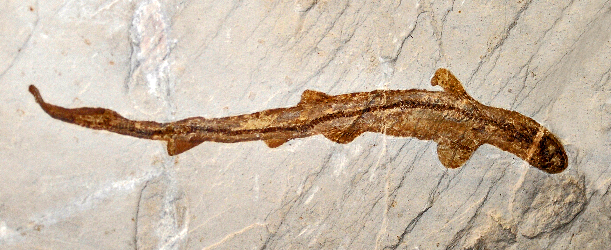 Fossil of Scyliorhinus elongatus from Cretaceous of Lebanon, on display at the Museo Civico di Storia Naturale di Milano